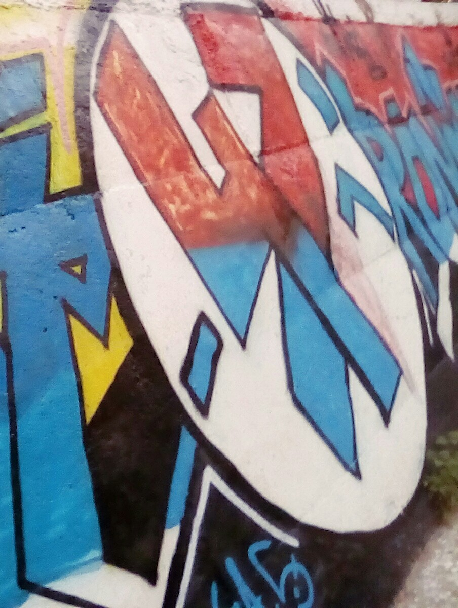 Graffiti